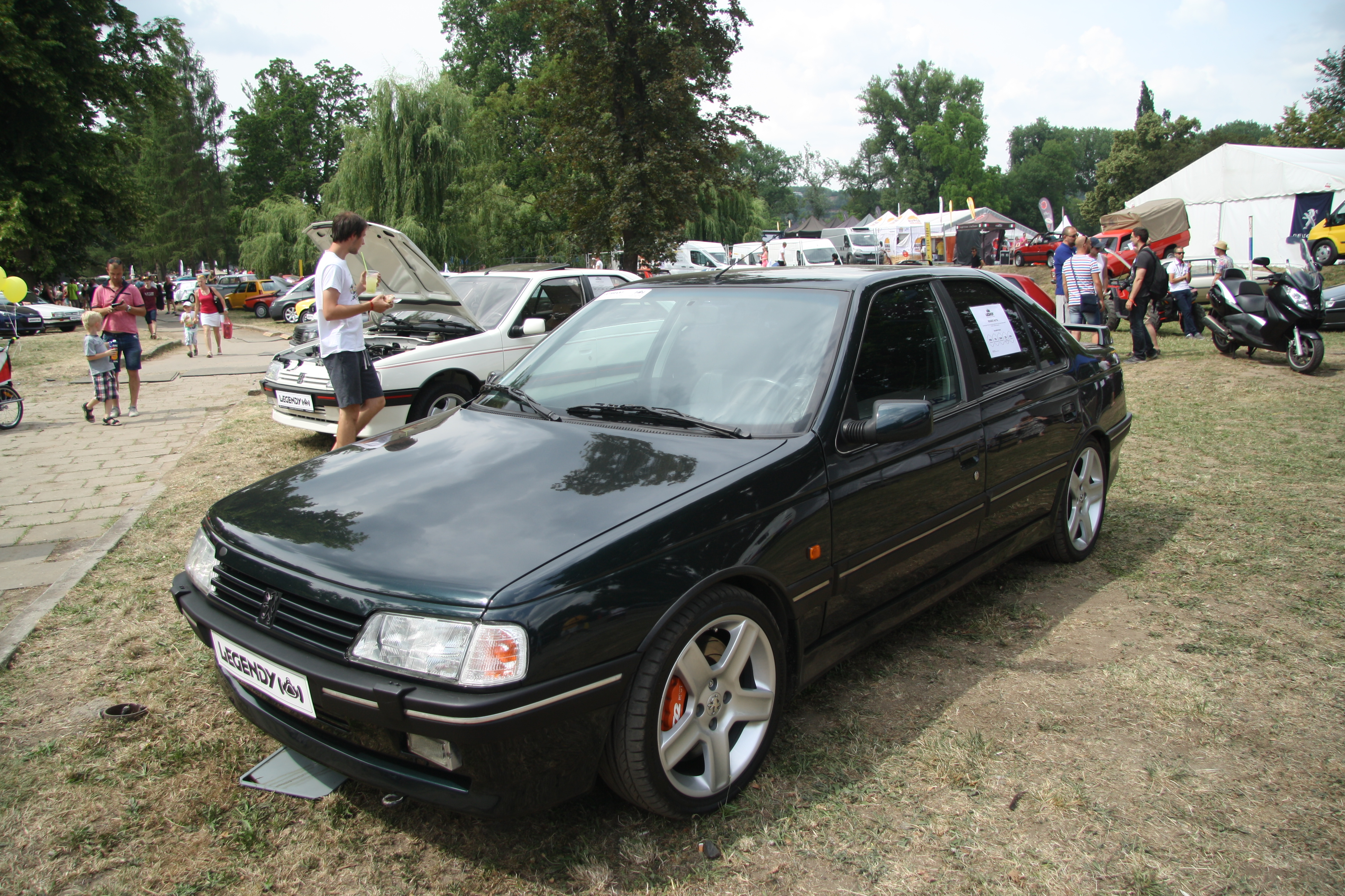 Peugeot 405 T16 at Legendy 2018 in Prague.